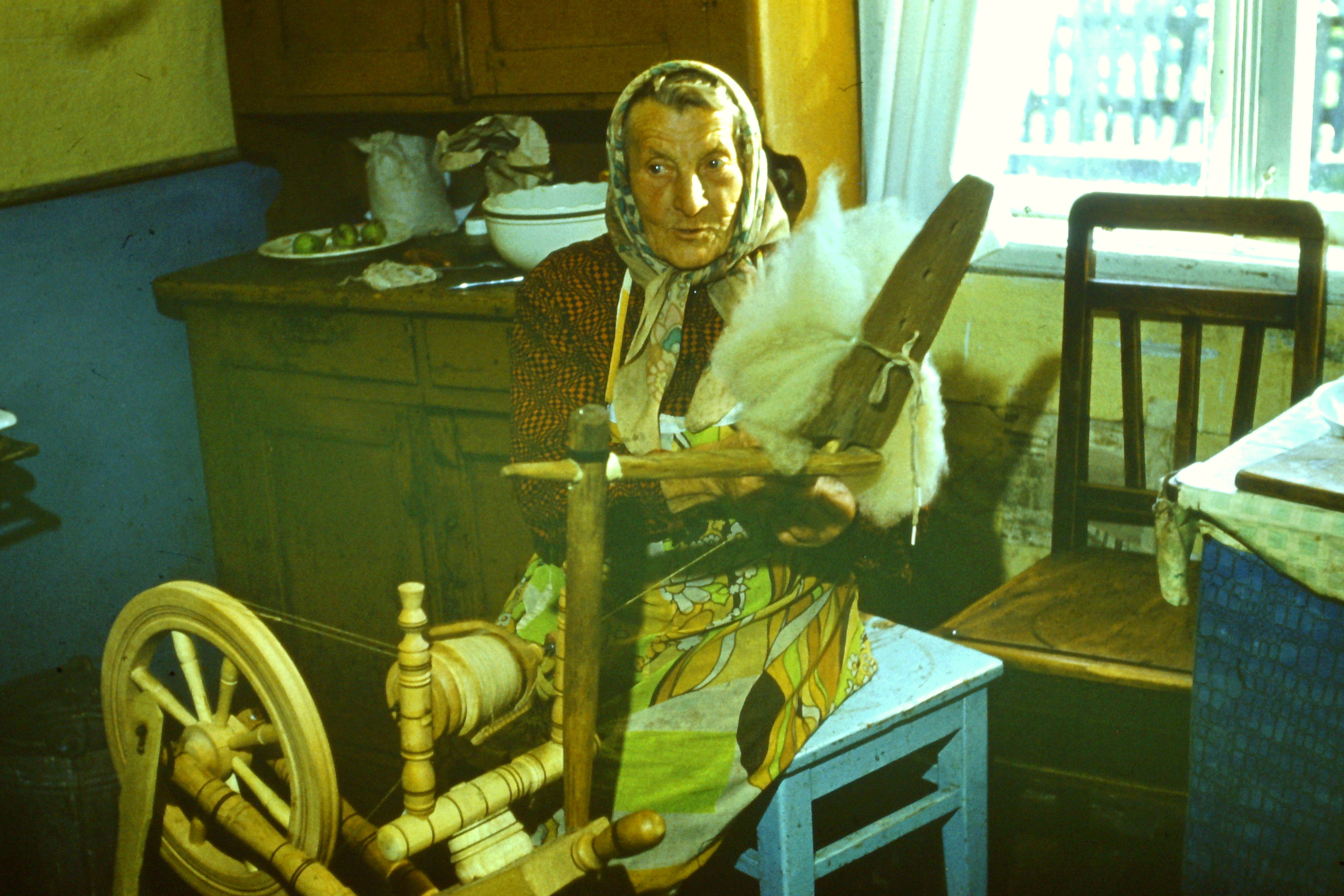 Picture made in the presbitery of Żyliny parish near Suwałki, Poland, september 1976, photographer: Andrzej Masłowski